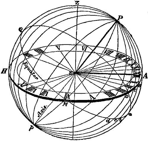 Discussion of sundial construction.